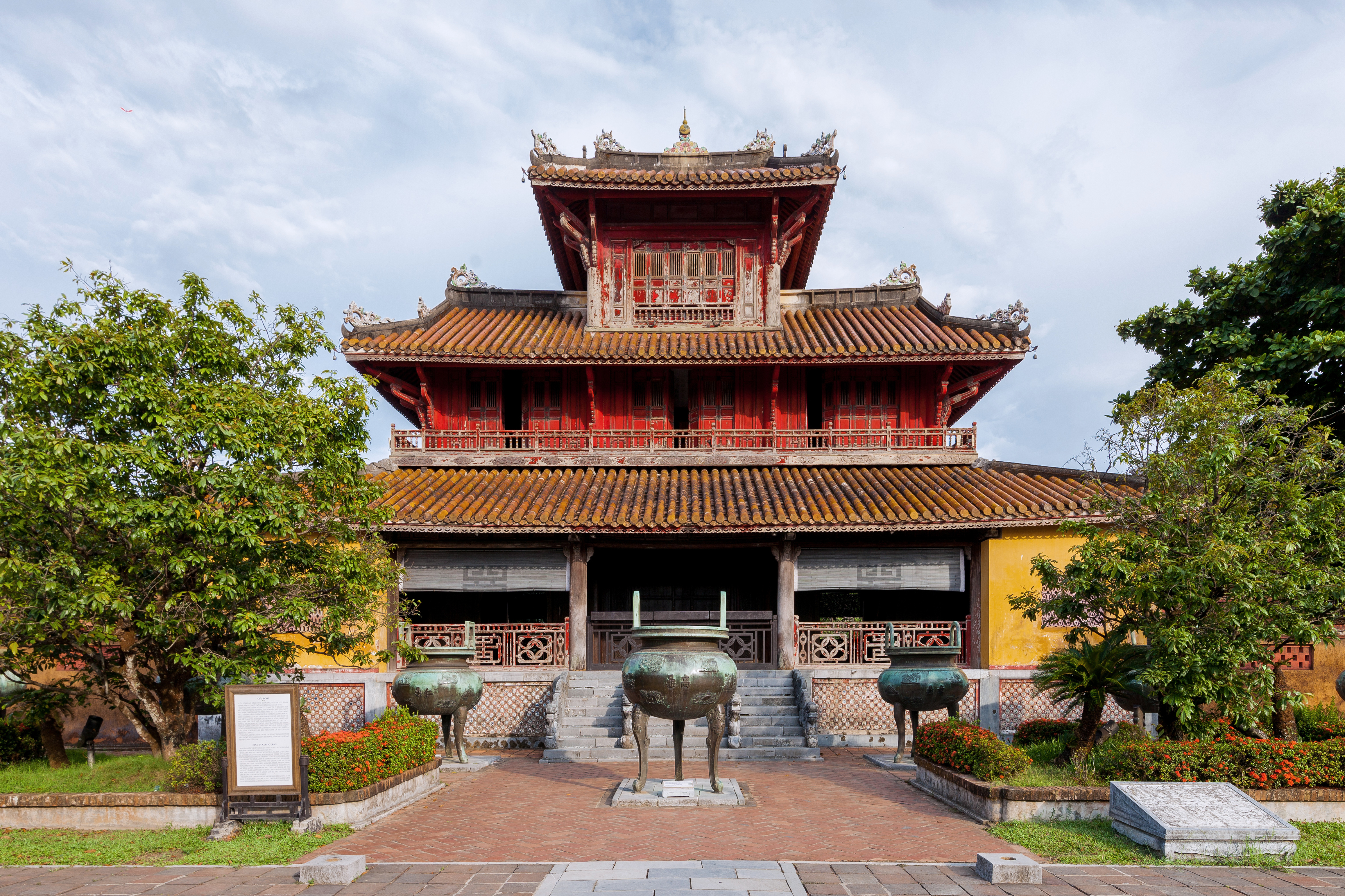 Pavilion of Splendour (Hiển Lâm Các) at Imperial City, Huế